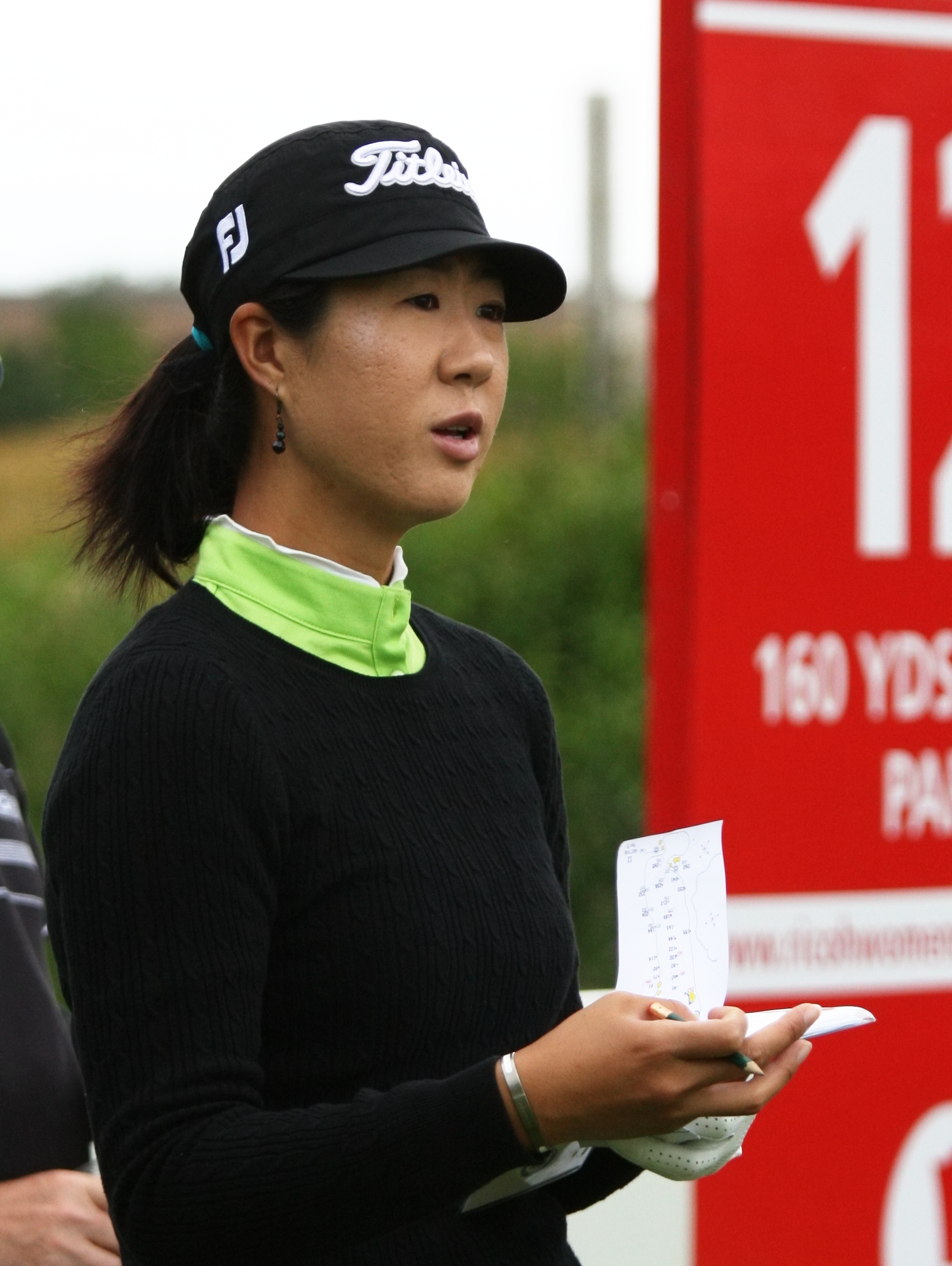 LYTHAM ST ANNES, UNITED KINGDOM - JULY 29: Birdie Kim of South Korea on the 12th tee during third practice round before 2009 Ricoh Women's British Open held at Royal Lytham & St Annes on July 29, 2009 in Lytham St Annes, England. (Photo by Wojciech Migda)